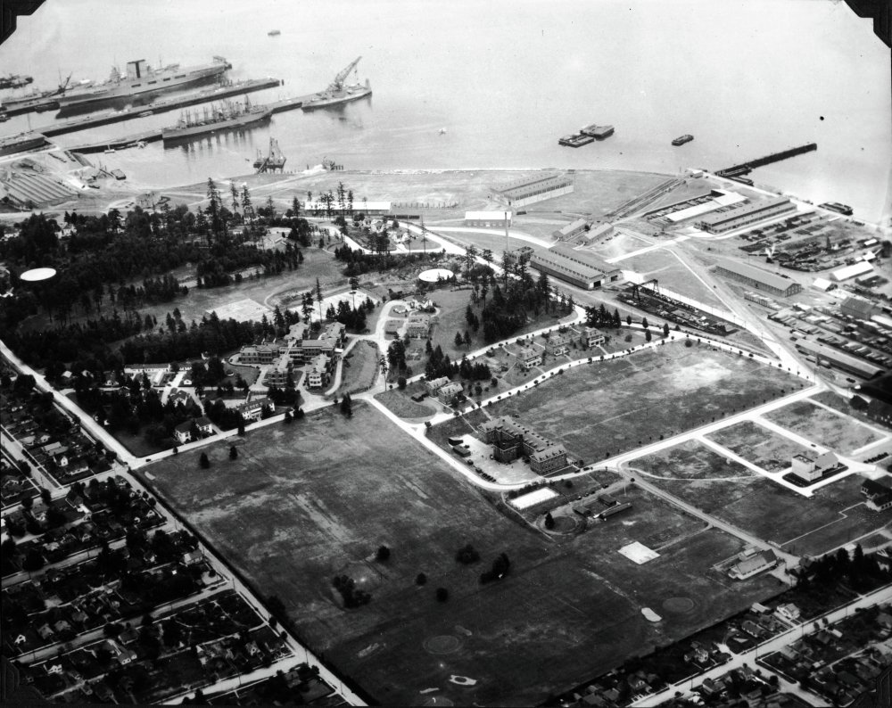 Aerial view of the Puget Sound Naval Shipyard, Bremerton, Washington (USA), in the early 1930s. Visible are the aircraft carrier USS Saratoga (CV-3), the seaplane tender USS Jason (AV-2) and the crane ship USS Kearsarge (AB-1). The stern of USS Lexington (CV-2) is visible in the dry dock in the upper left.